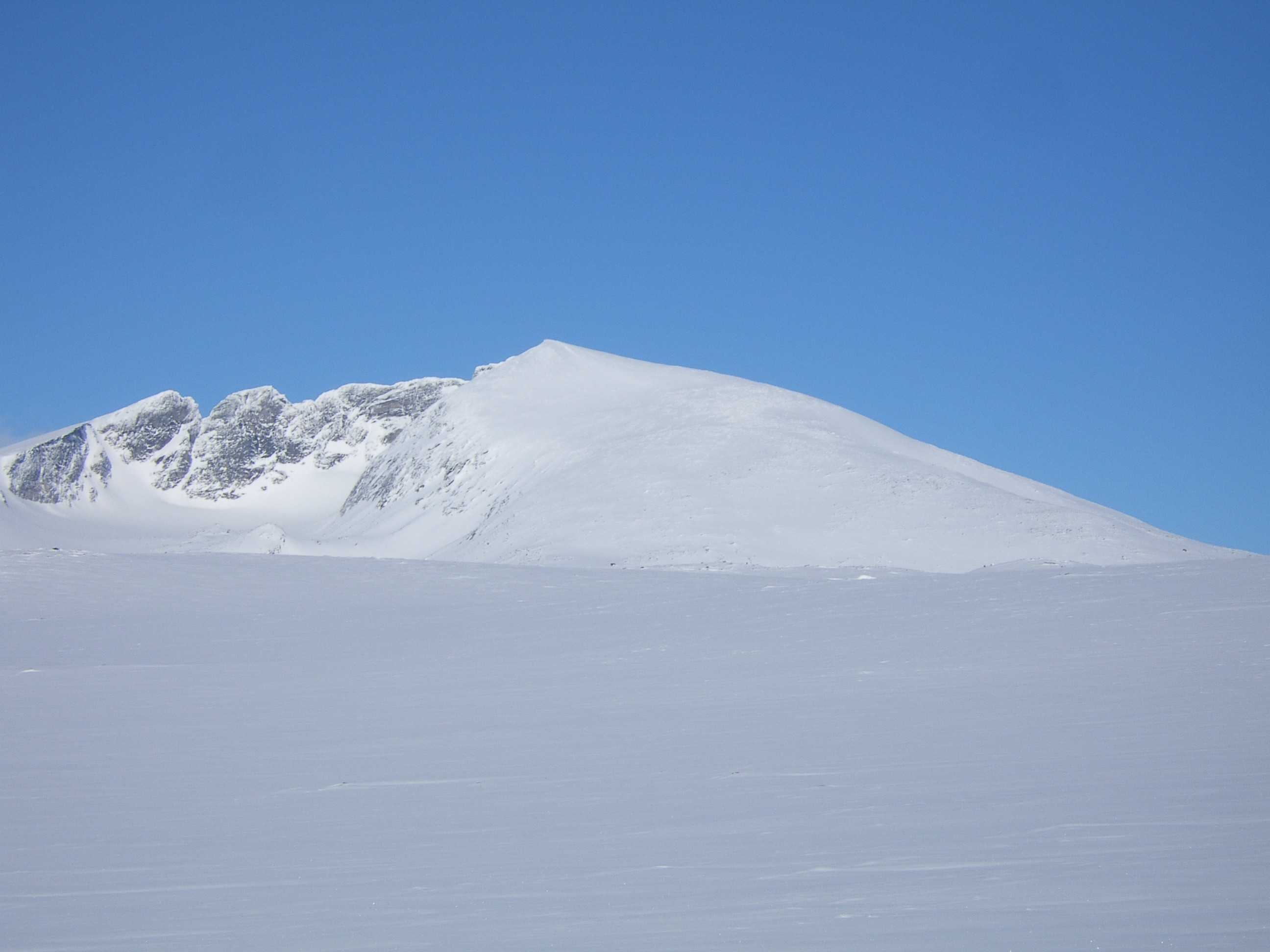 The Snøhetta massif in the Dovre region of Norway. The main summit, nearest to the camera, is the highest summit in Norway outside of the Jotunheimen ranges. The main summit and the west summit, seen to the far left, are easily climbed, the rest of the summits in massif can be reached by relatively simple climbing. The image was shot during Easter 2006 by Kjetil Kjernsmo.